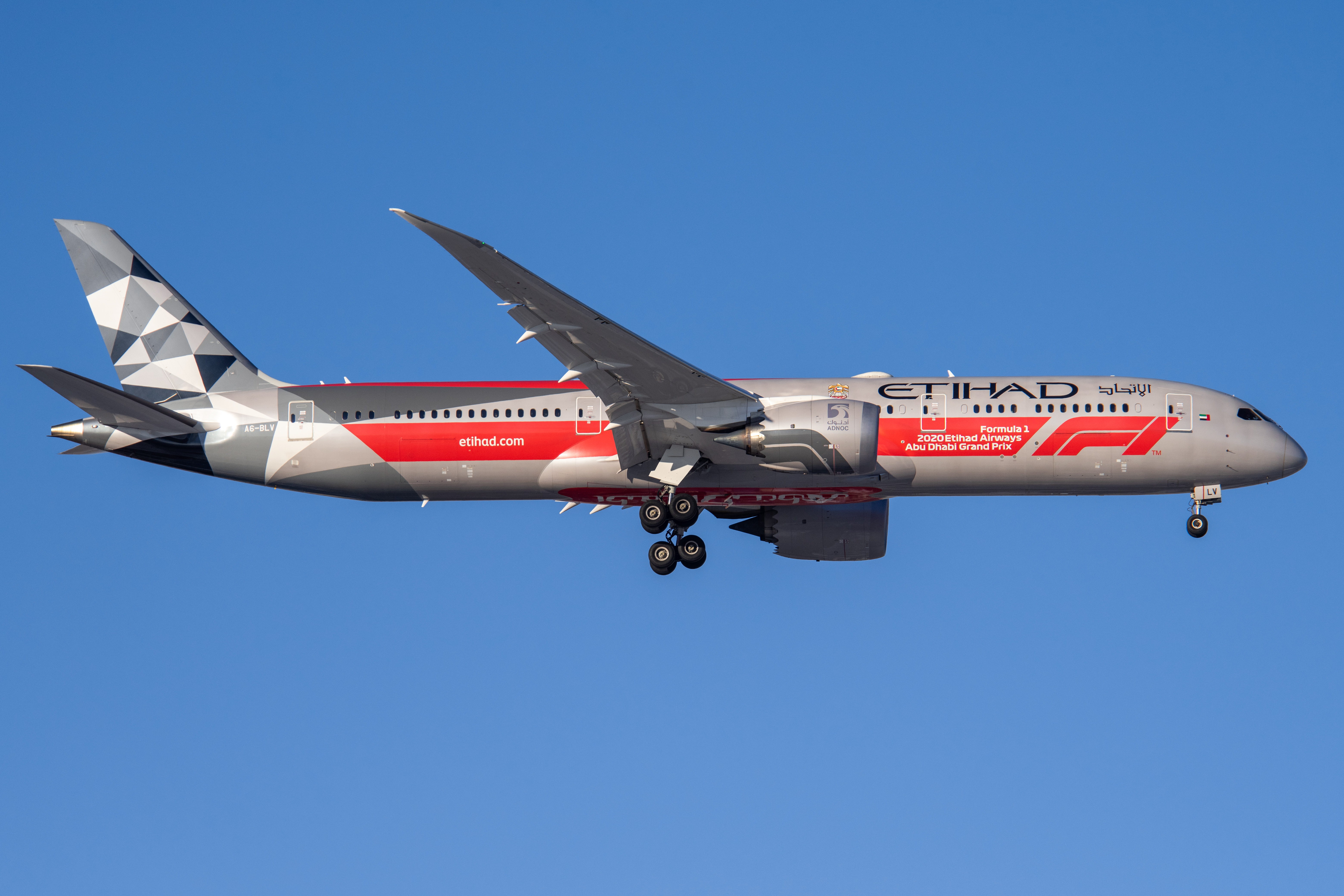 Etihad 888 from Abu Dhabi. Following the outbreak of nCoV, the second leg from Beijing to Nagoya has been temporarily canceled, and the first leg has been switched from B78X to 789! Today, this "Abu Dhabi Grand Prix" came after Suparna's medical charter. Roughly two years ago, I wondered if there would be an "E=BLv", and later it turned out to be in GP livery!